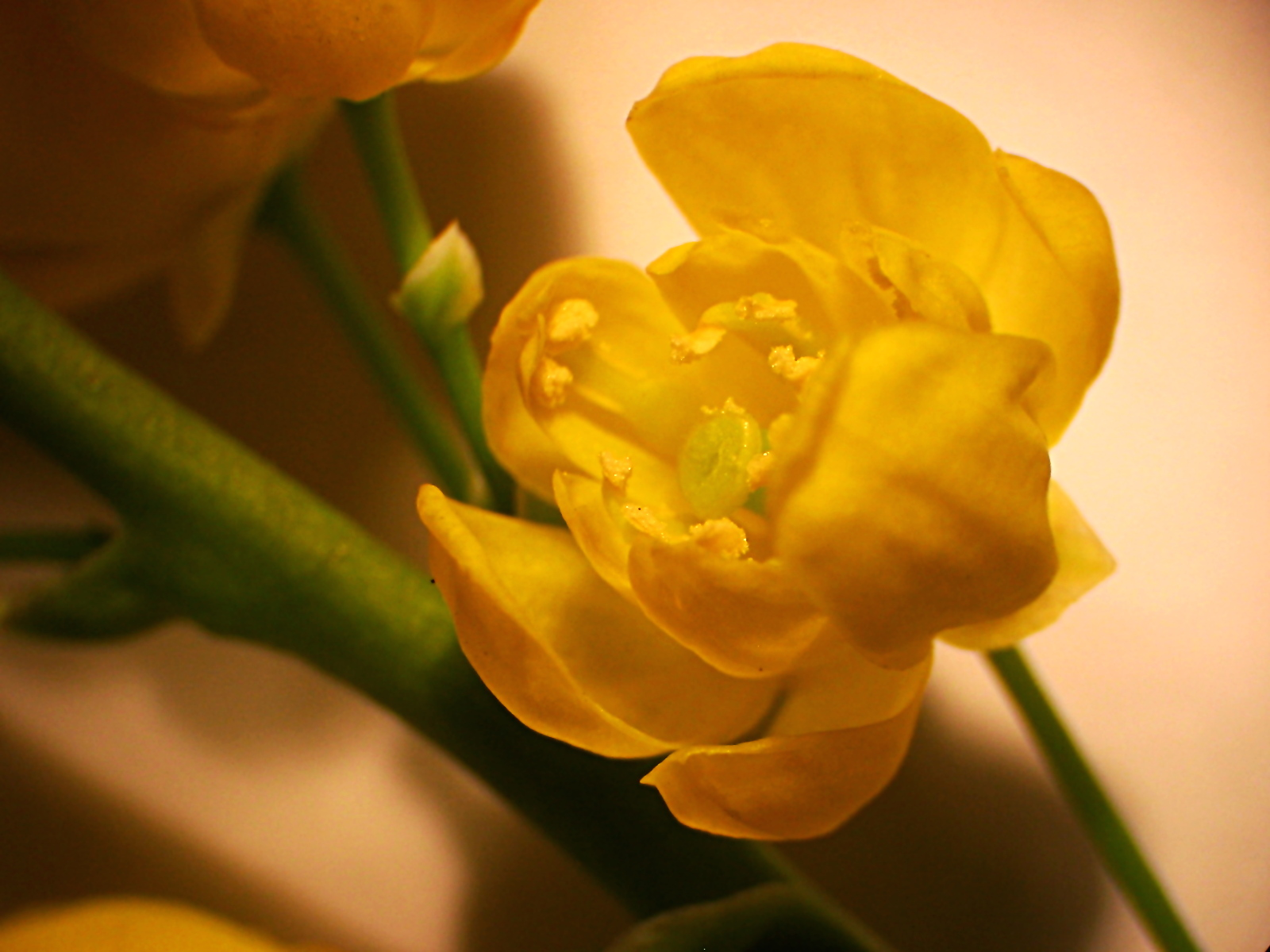 Mahonia aquifolium, flower under 10X stereomicroscope